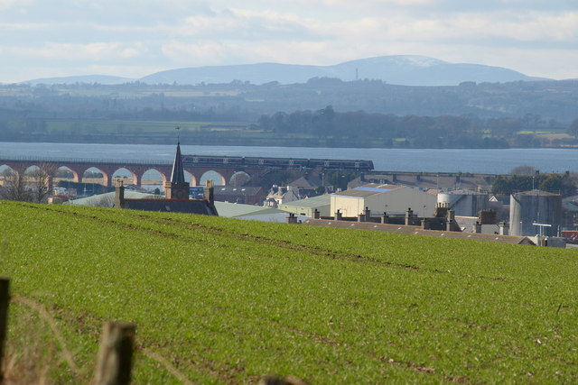 View of a northbound train passing over Rossie Island Viaduct, Montrose Picture taken from the track that leads from Ferryden Farm to Scurdie Ness Lighthouse. Direction is northwest.